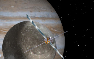 Artist's concept of the proposed JUICE mission to the Jupiter system.